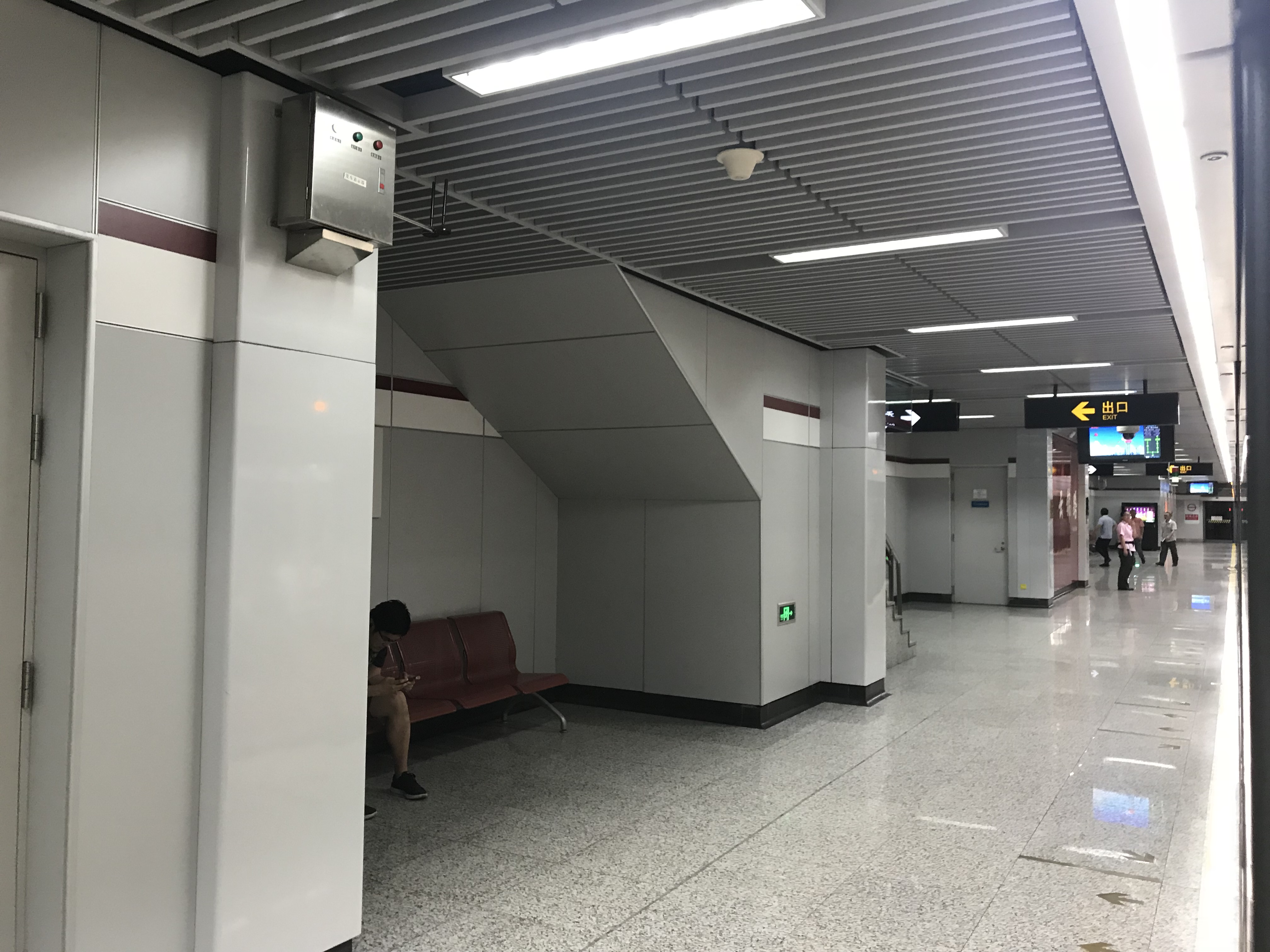 201806 Jiading-Bound Platform at Yunjin Road Station